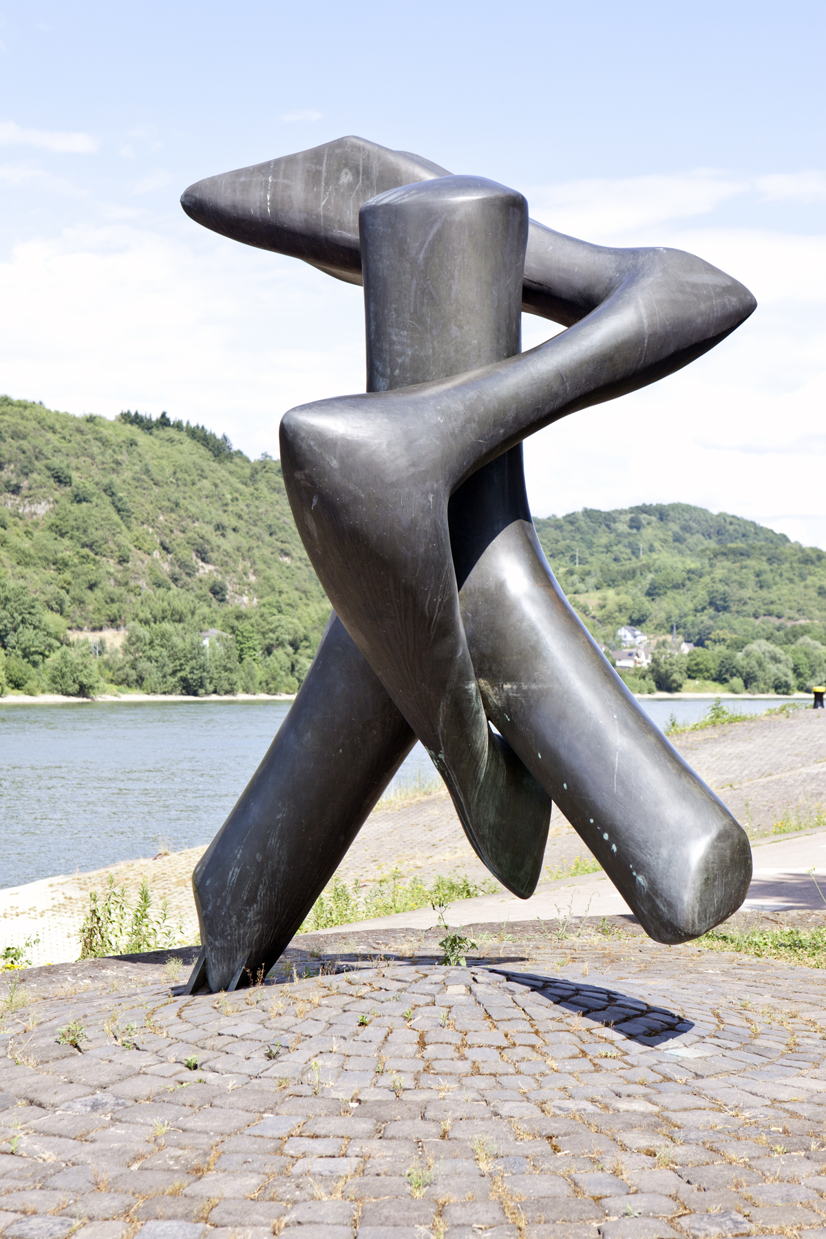 Lajos Barta, Sculpture Liebeskraft at Remagen, Germany